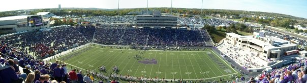 This is a panoramic picture I took at the Oklahoma/Kansas State game on Oct.25, 2008.